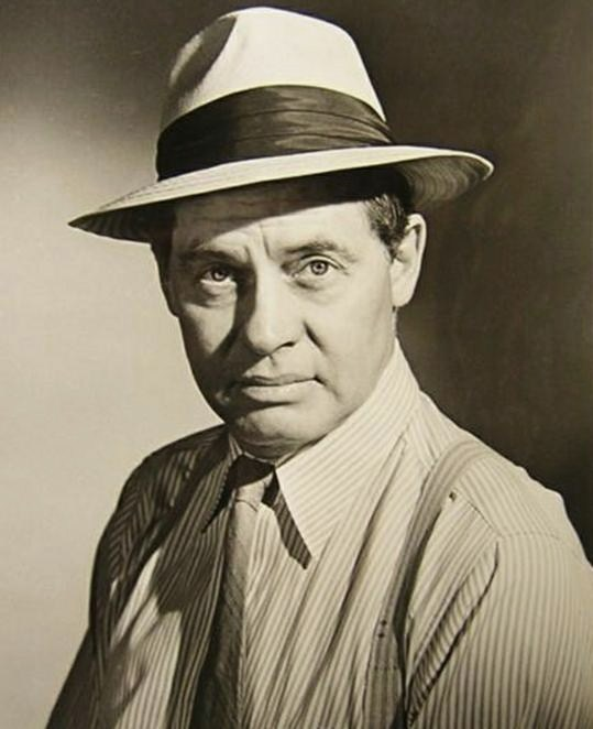 american actor Frank Overton - publicity still (original image cropped : see source)